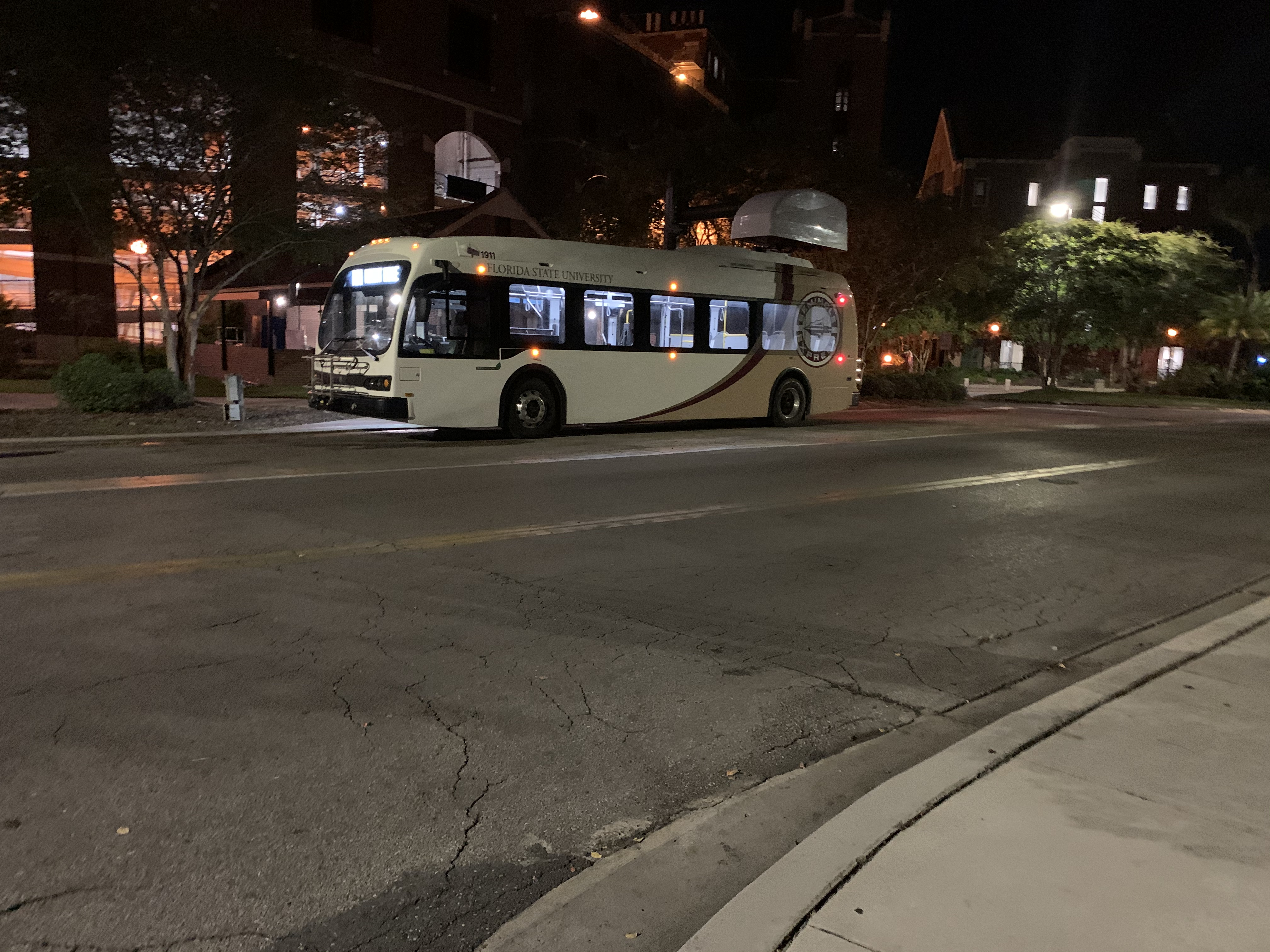 Proterra XR-Plus using overhead charging at FSU